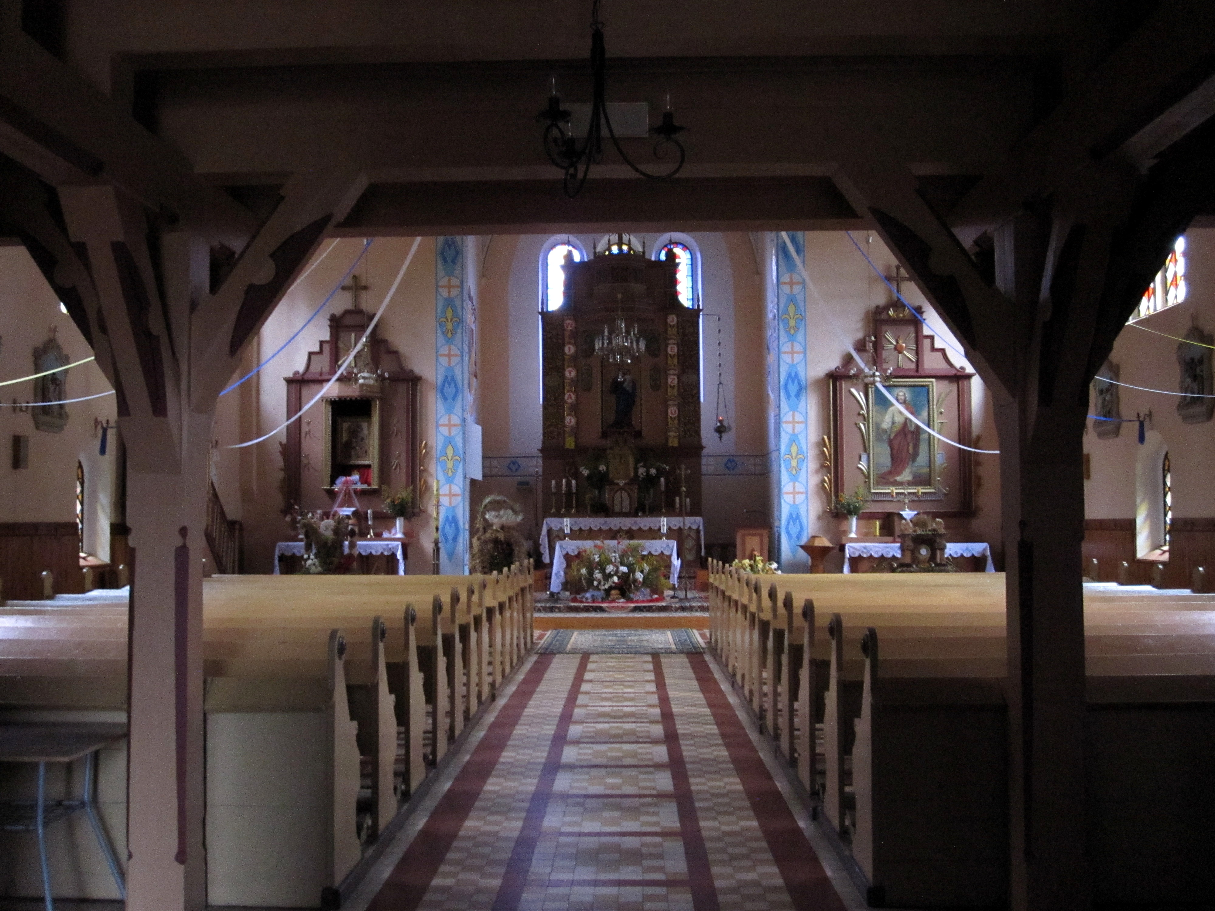 Our Lady Help of Christians church in Klusy